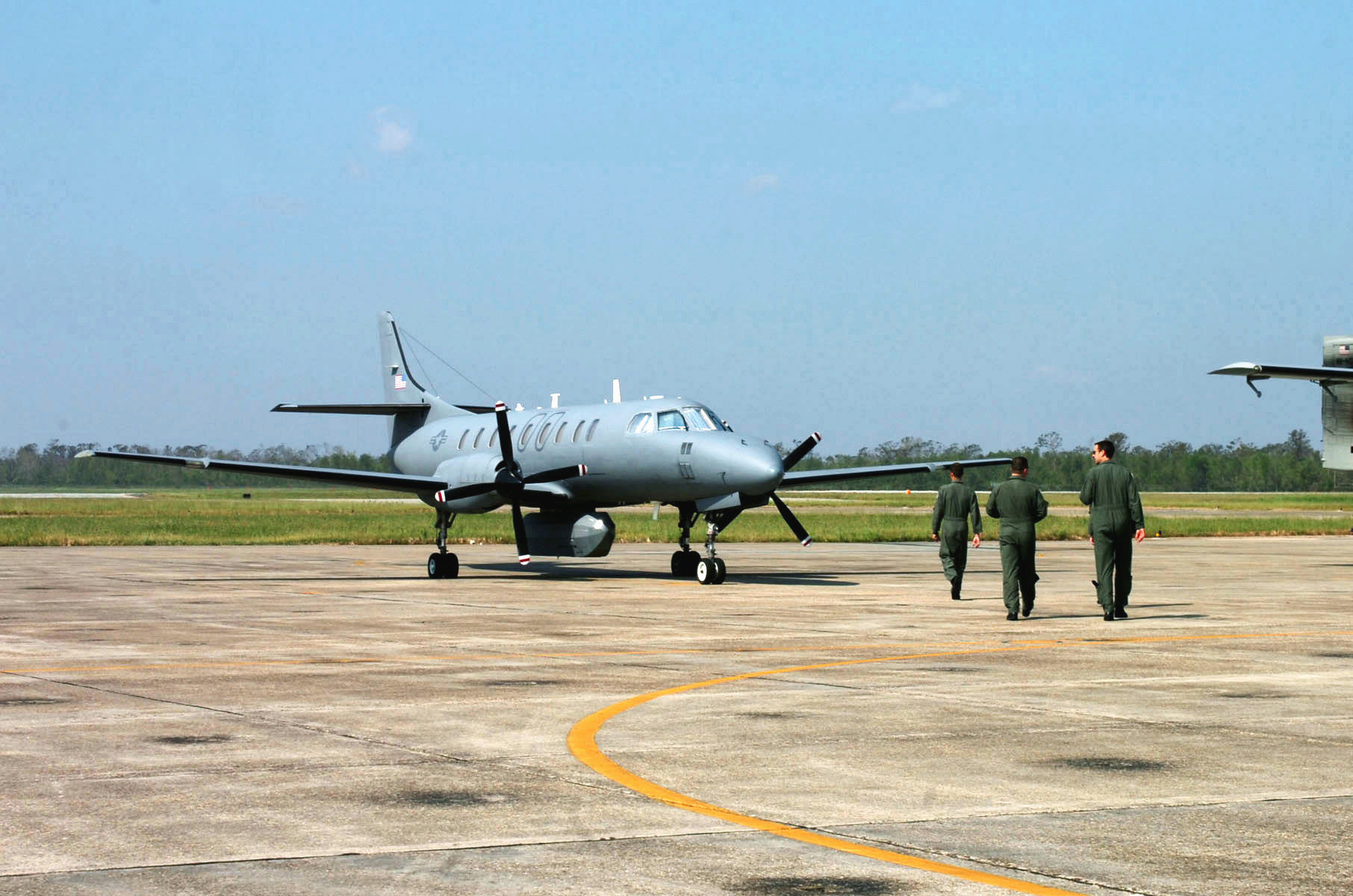 Texas Air National Guard (TXANG) RC-26B Intelligence Surveillance Reconnaissance (ISR) aircraft, 147th Fighter Wing (FW), TXANG, Ellington Field, Texas (TX), providing photographs of the flood damage, identify search and rescue (SAR) sites for the US Coast Guard (USCG), and use of infrared capabilities for law enforcement agents as they cleared buildings. Location: NEW ORLEANS IAP, LOUISIANA (LA) UNITED STATES OF AMERICA (USA)